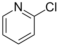 2-chloropyridine